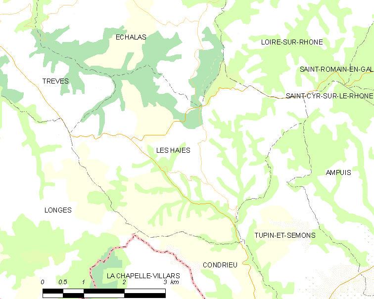 Map of French municipality